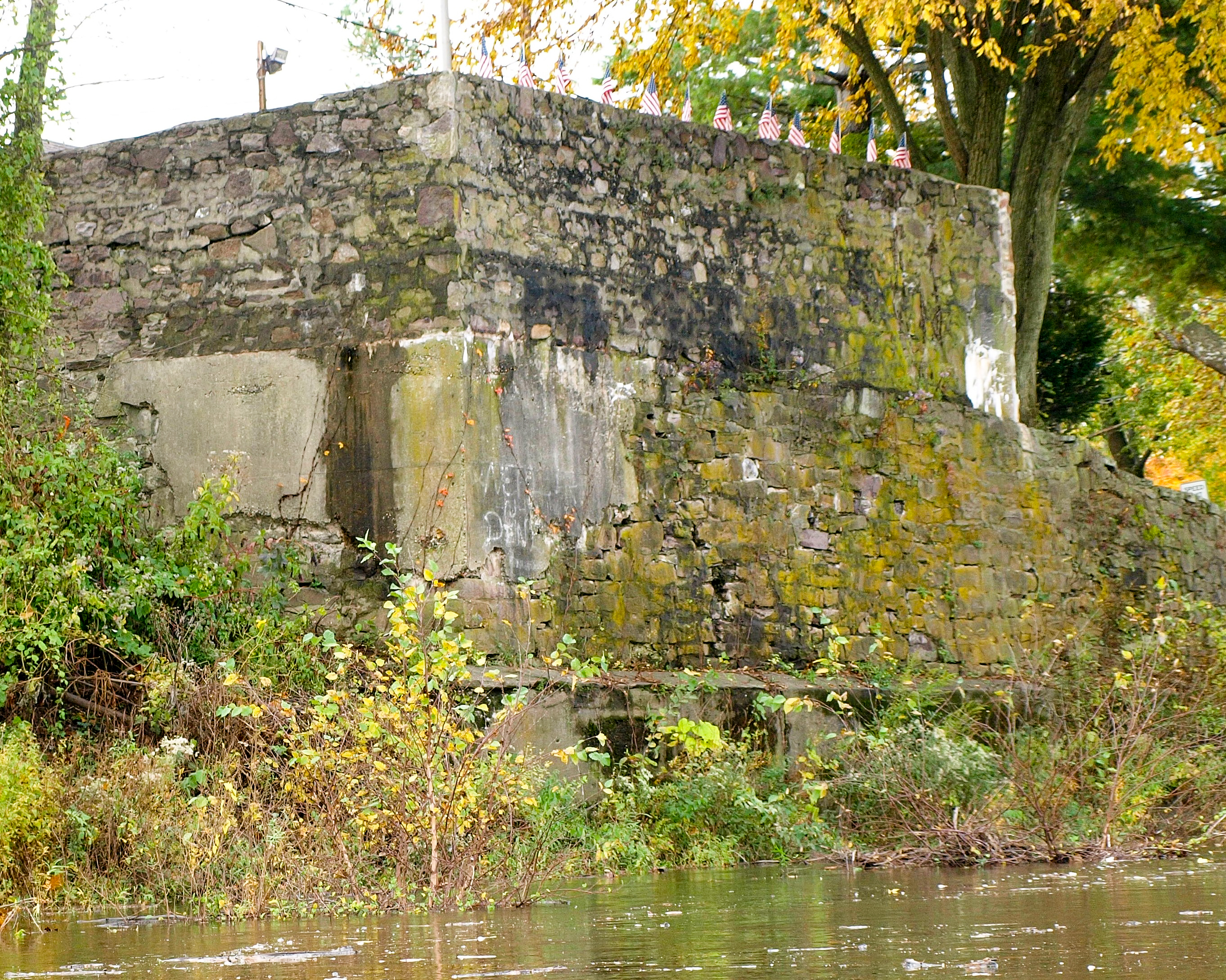 Abutment Remains of old Yardley-Wilburtha Bridge, Delaware River, Yardley, Pennsylvania (looking west by kayak)